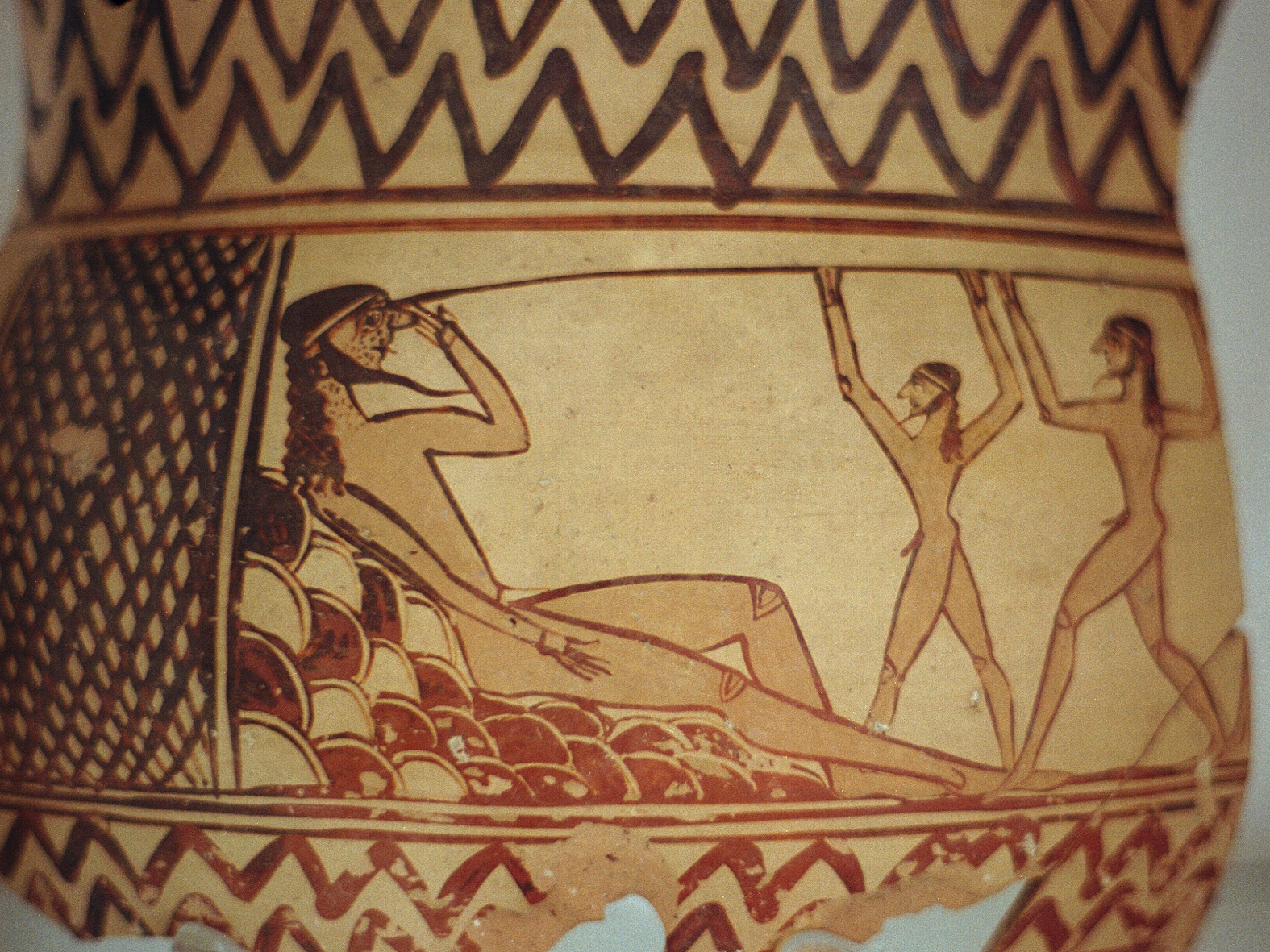 Odysseus with the kind stabbing giant Polyphemus in his single eye. Vase painting from archaic (or late geometric) time. Archaeological Museum of Argos